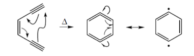 dgsfadfs